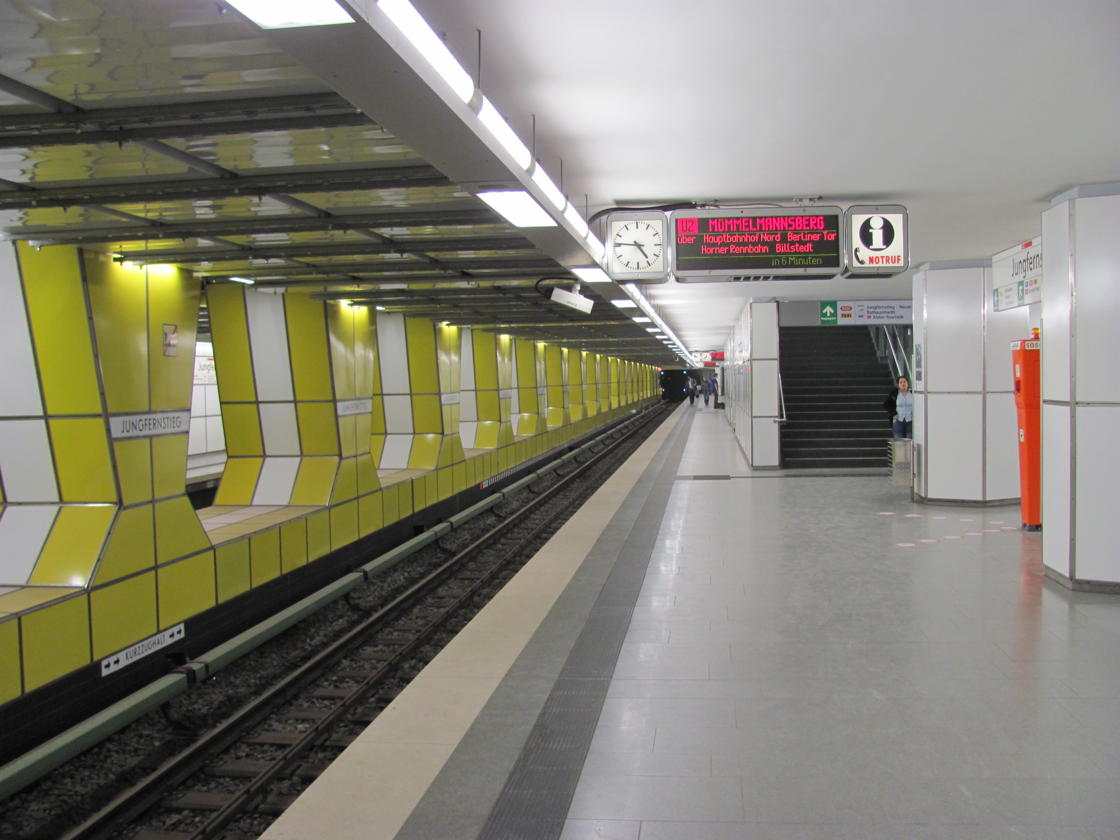 U-Bahn station Jungfernstieg in Hamburg, Germany